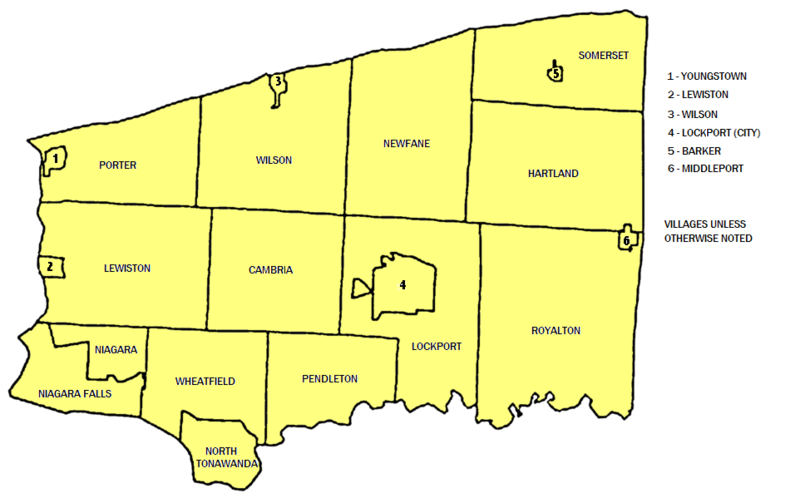 Niagara County Municipalities labed